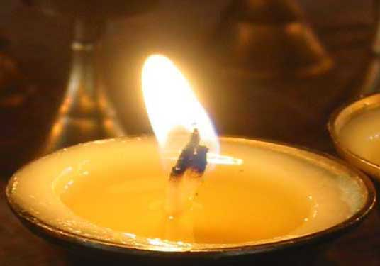 The flame of wisdom.